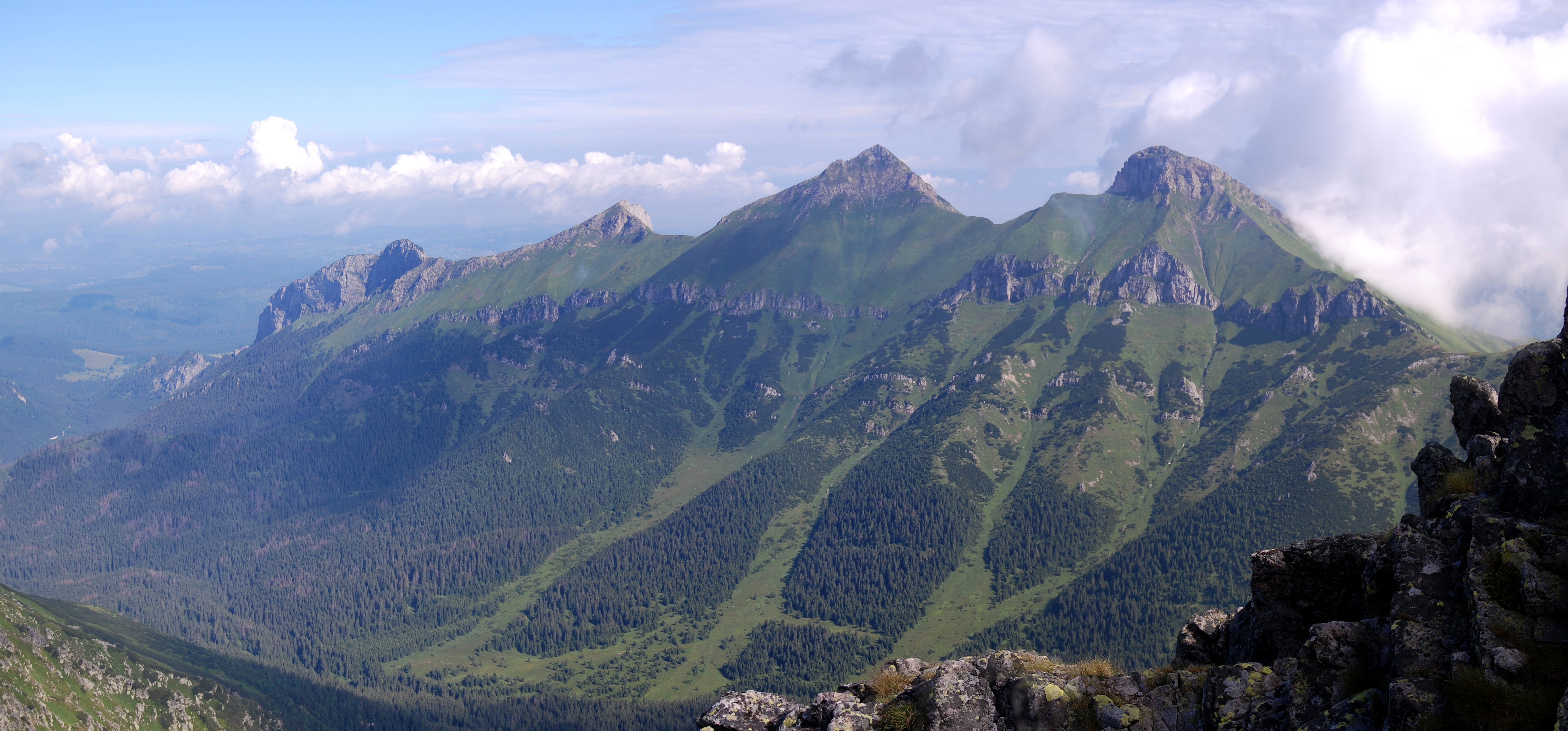 West part of Belianske Tatry Mountains as seen from Jahňaci štít, Slovakia.